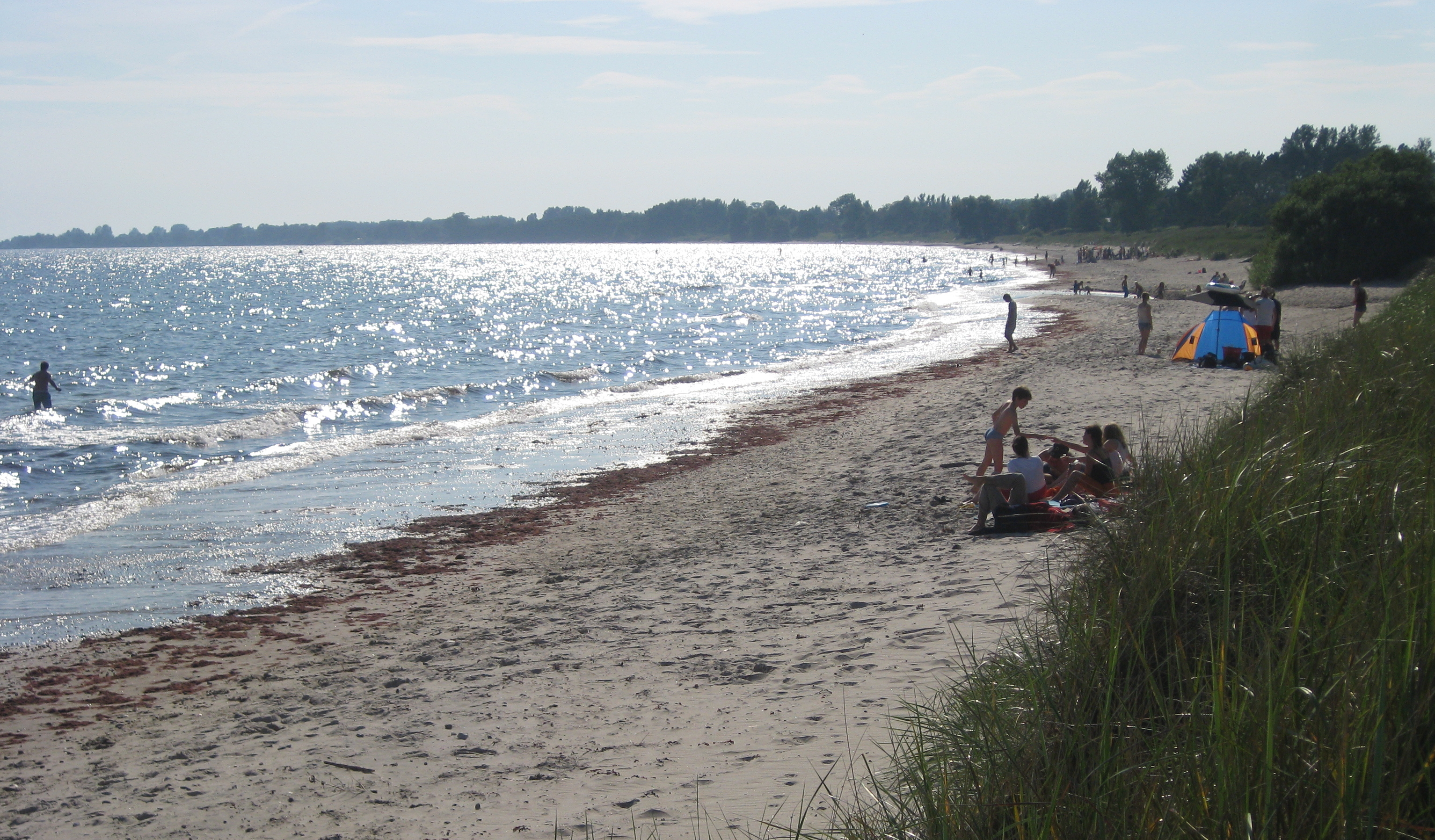 The beach at Mossbystrand, Scania, Sweden